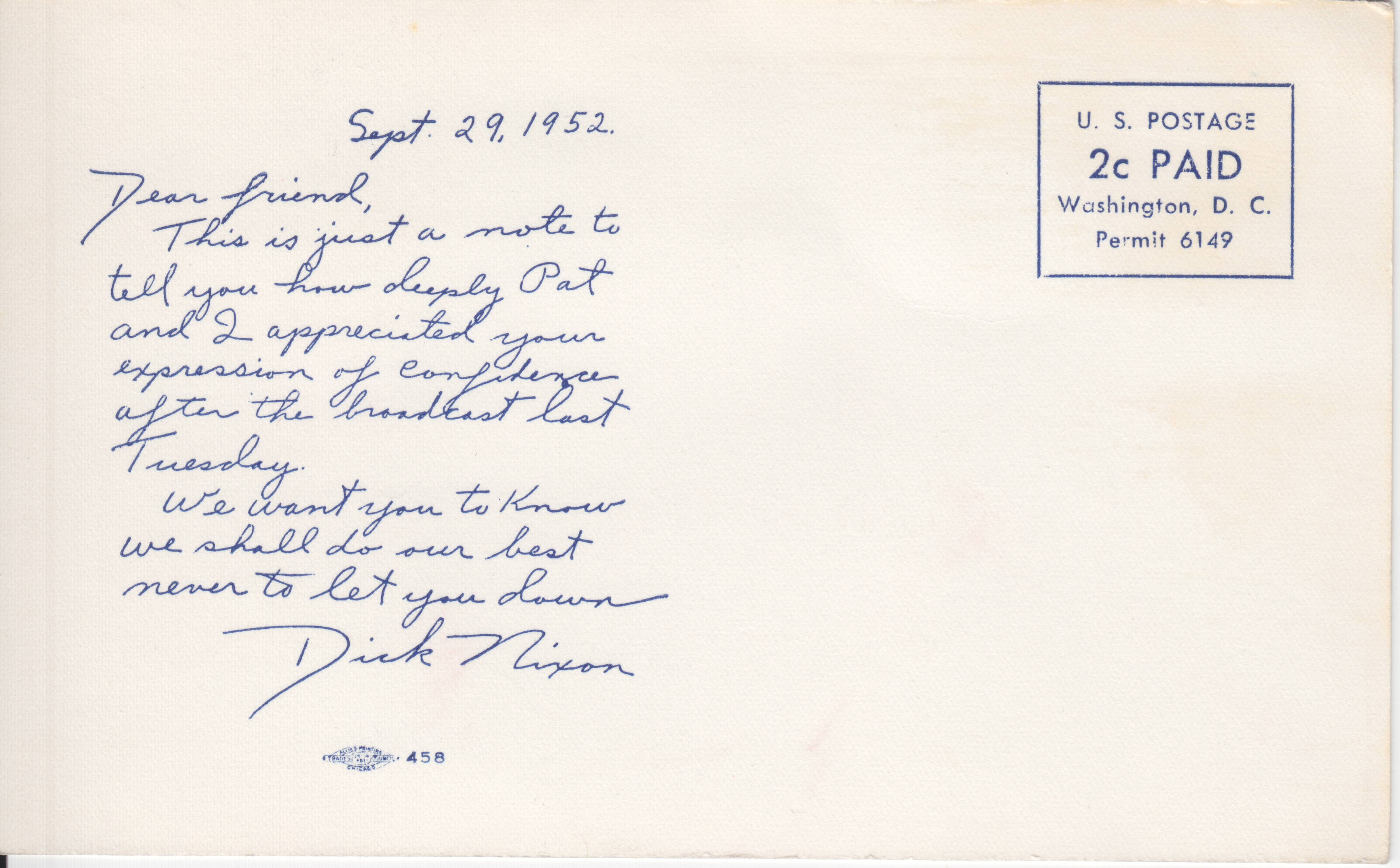 Postcard sent out by Richard Nixon to supporters who had written after the Checkers speech. The other side is a picture. There are no copyright notices.